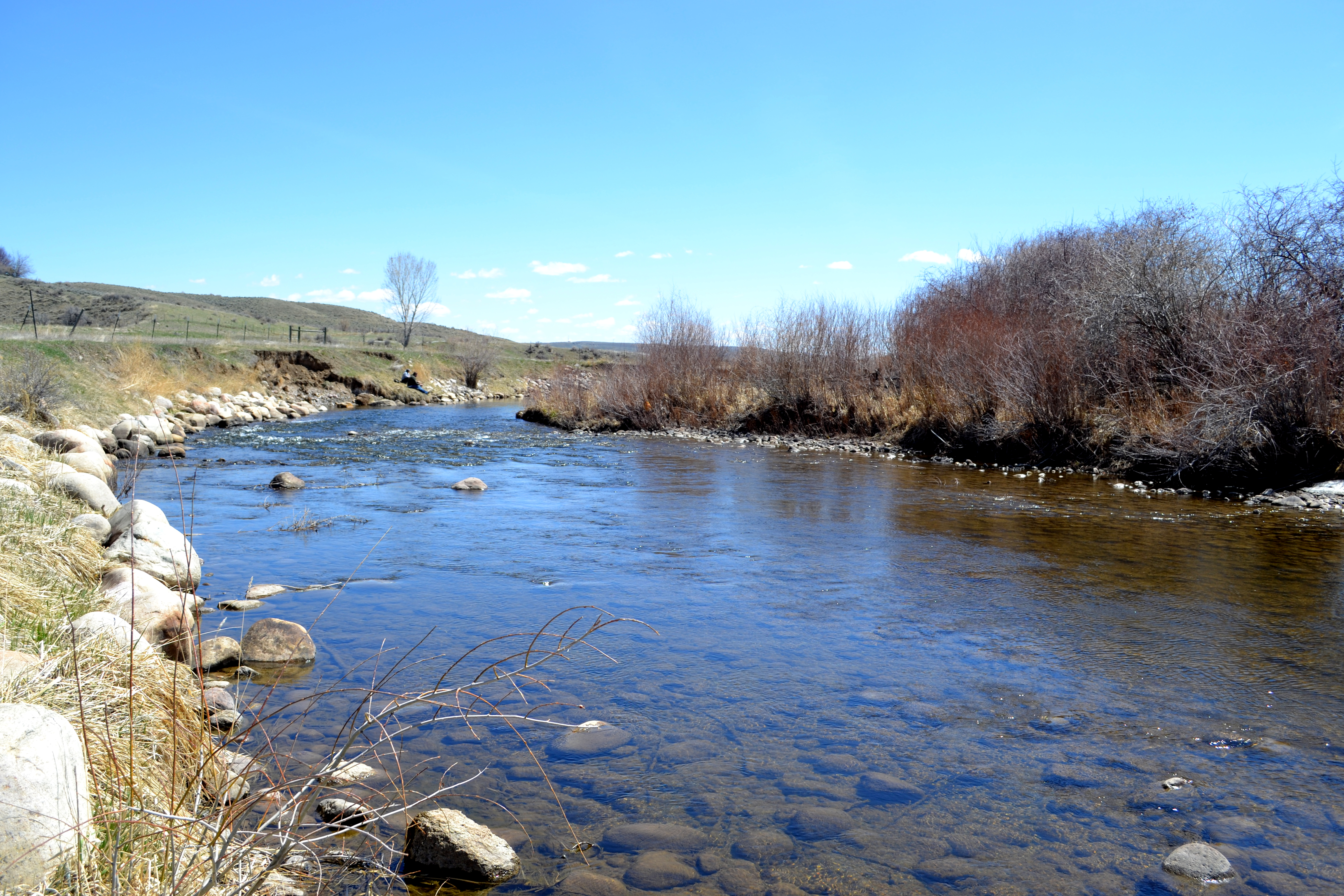 View of the North Fork Popo Agie River looking east April 2020.